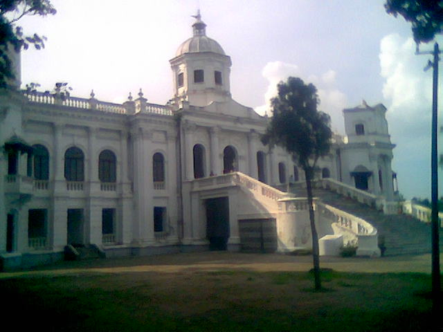 Side angle view of Tajhat Rajbari, Rangpur.